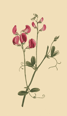 Lathyrus tuberosus (= Tuberous Lathyrus, or Pease Earth-Nut)